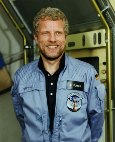 Reinhard Furrer, german astronaut. Official NASA photo